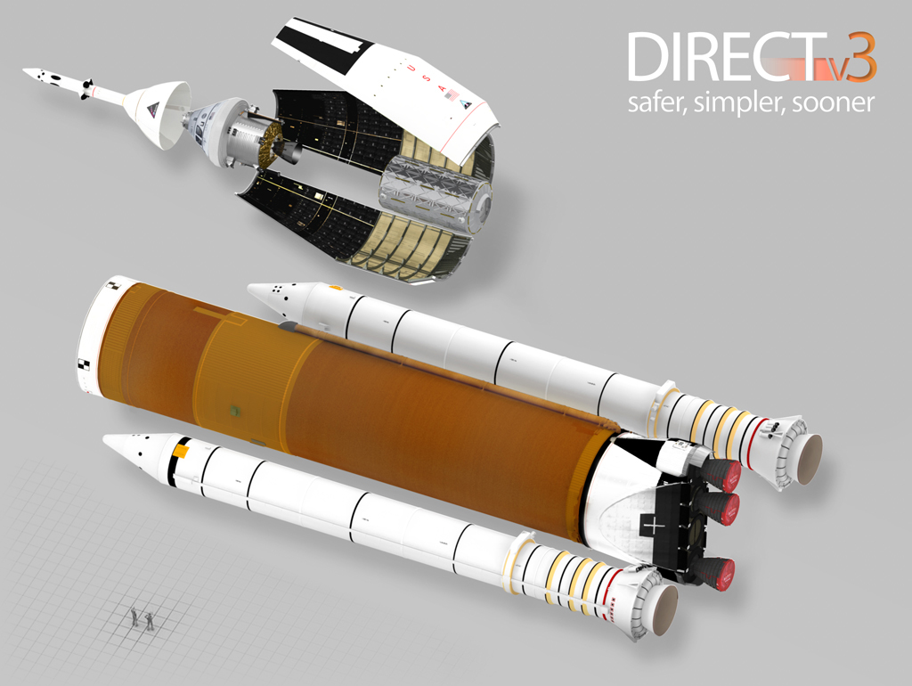 Exploded image of the DIRECT Jupiter-130 Launch Vehicle Artist: Philip Metschan, DIRECT Team